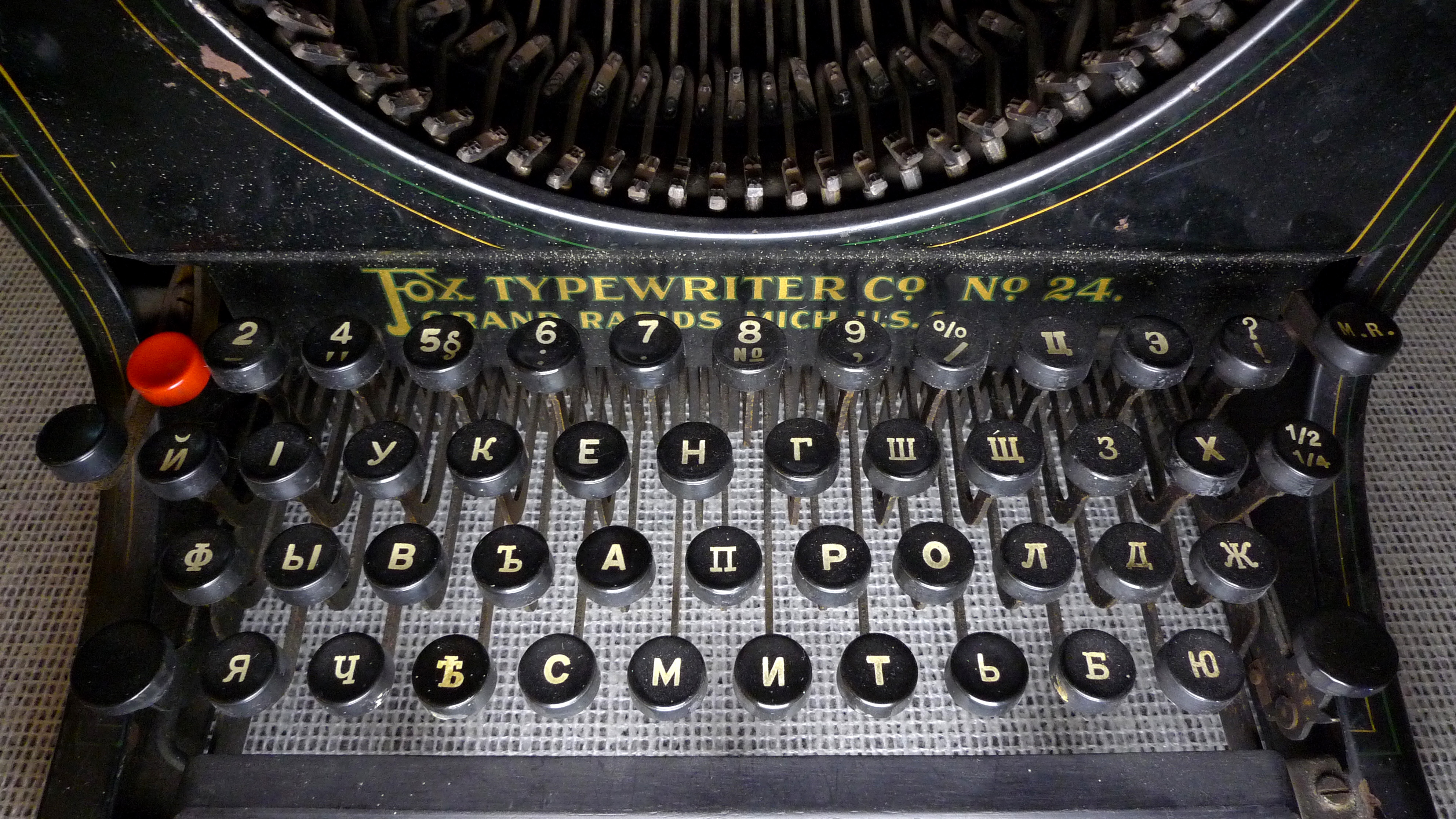 Fox Typewriter 24 (1912) with pre-revolution Russian layout.